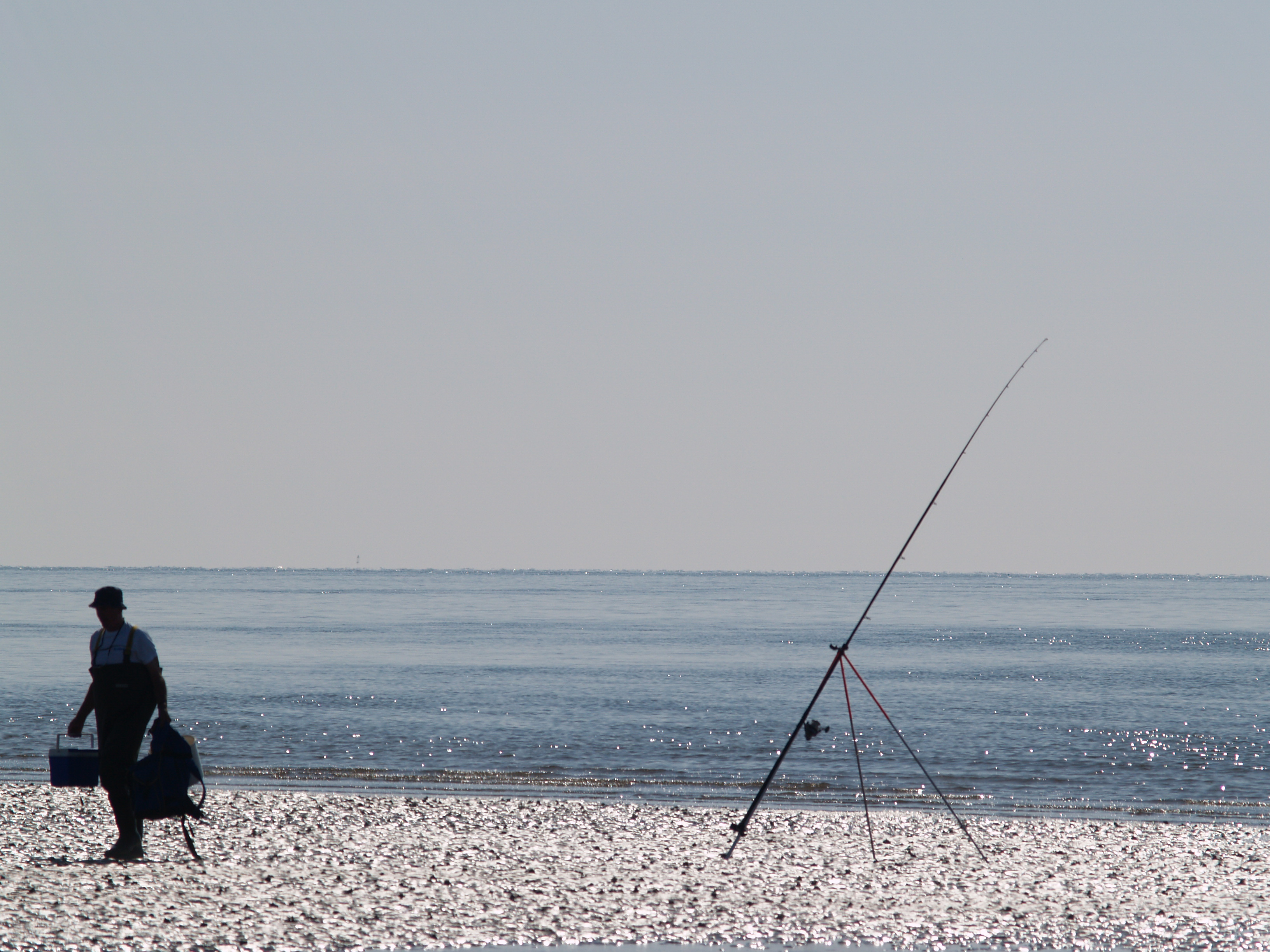 Photo of Fisherman at Mawbray, 2008.